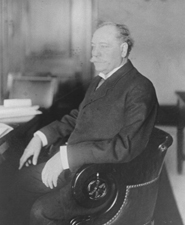 Thomas H. Paynter